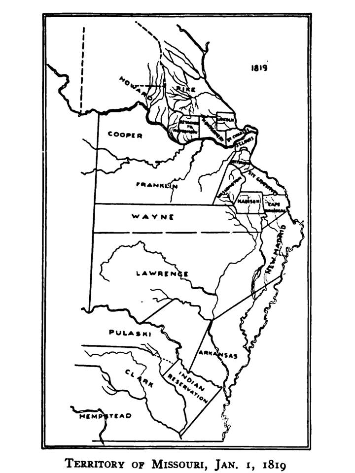 A Map of the Missouri Territory on January 1 1819, prepared by the University of Missouri Political Sicence Department and published in 1918.